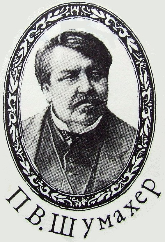 Photo of Pyotr Vasilyevich Schumacher (1817-1891), Russian poet